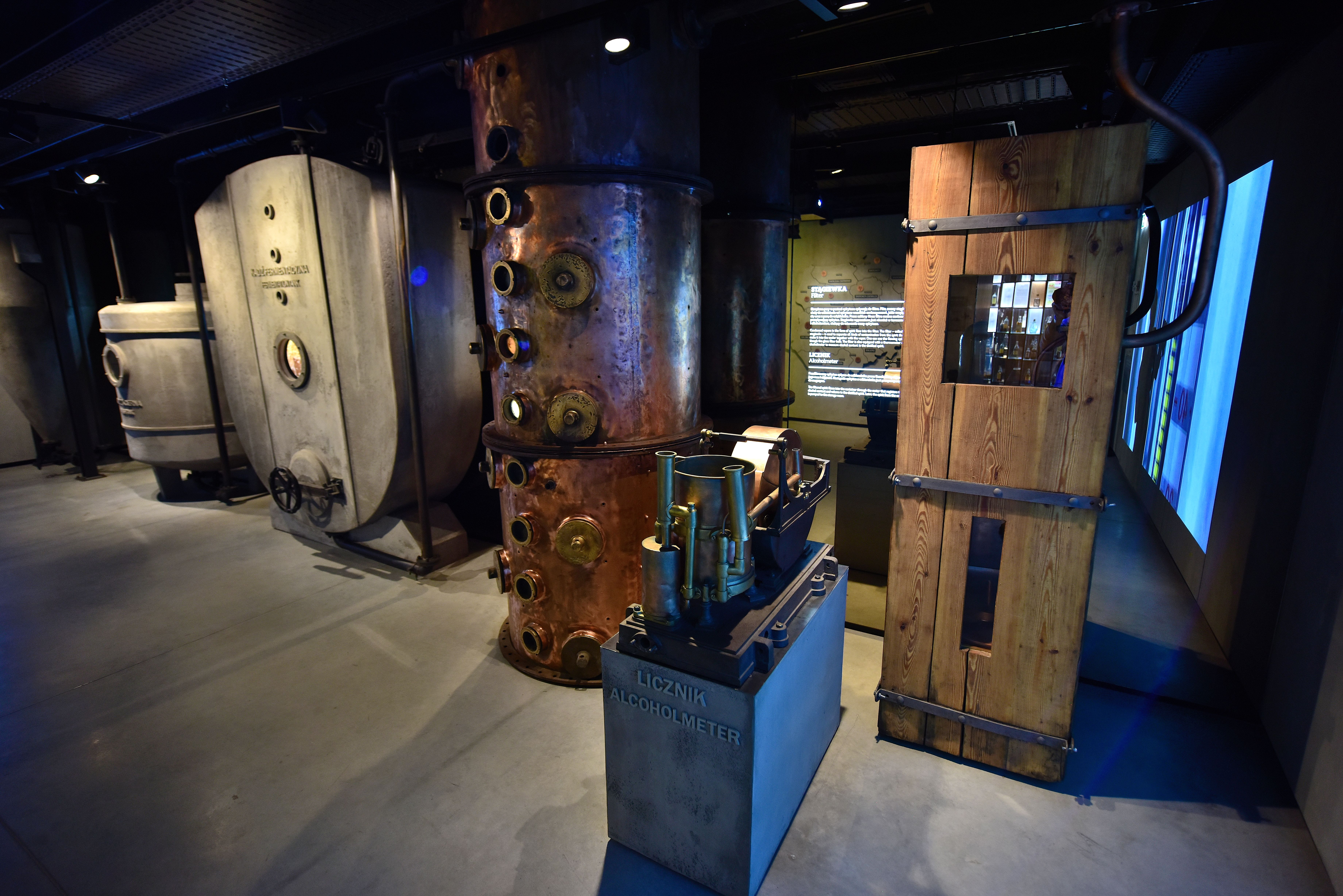 Polish Vodka Museum in Warsaw. Gallery 3